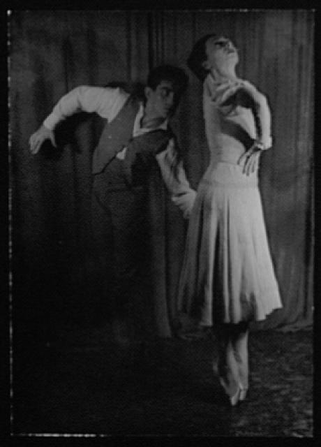 Title: Portrait of Hugh Laing and Nora Kaye, in Pillar of Fire Abstract/medium: 1 photographic print : gelatin silver.